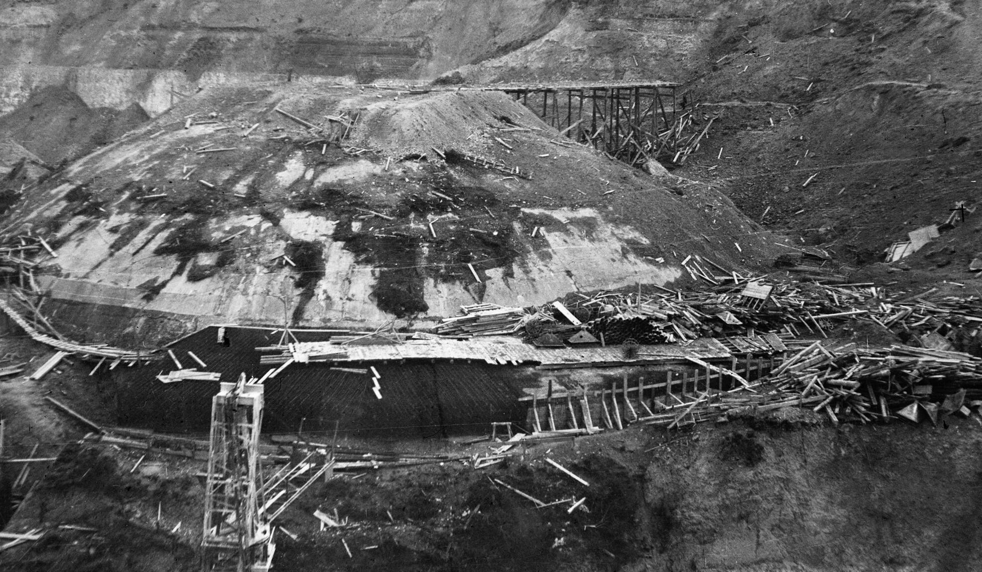 Low-level reconnaissance photograph of the Wizernes dome on July 6, 1944